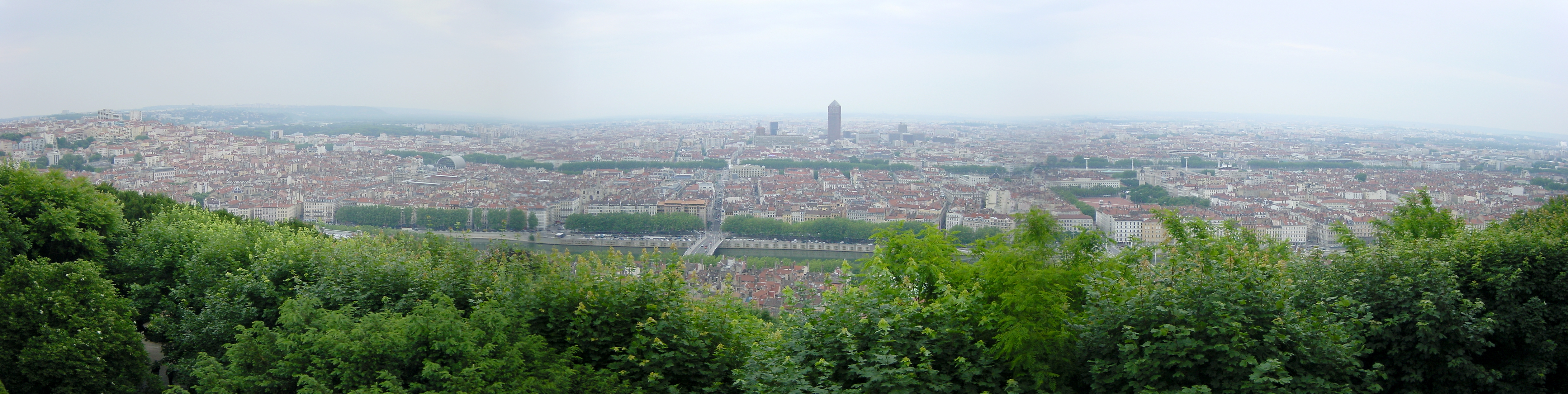 Views of Lyon taken from La Basilique Notre-Dame de Fourvière à Lyon. This panoramic photo was created from 3 original images and stitched with Panorama Factory.